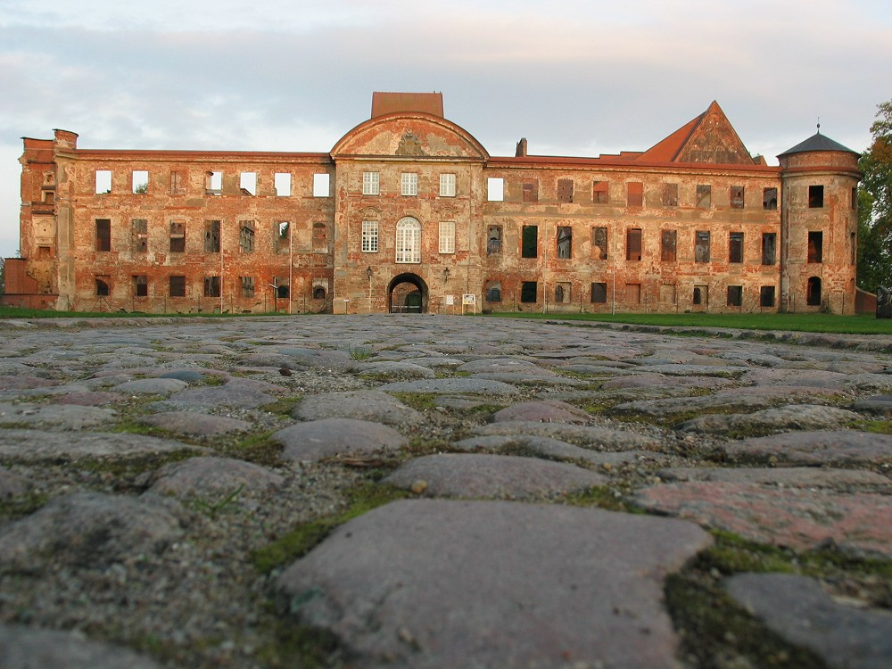 Monastery and castle ruins in Dargun